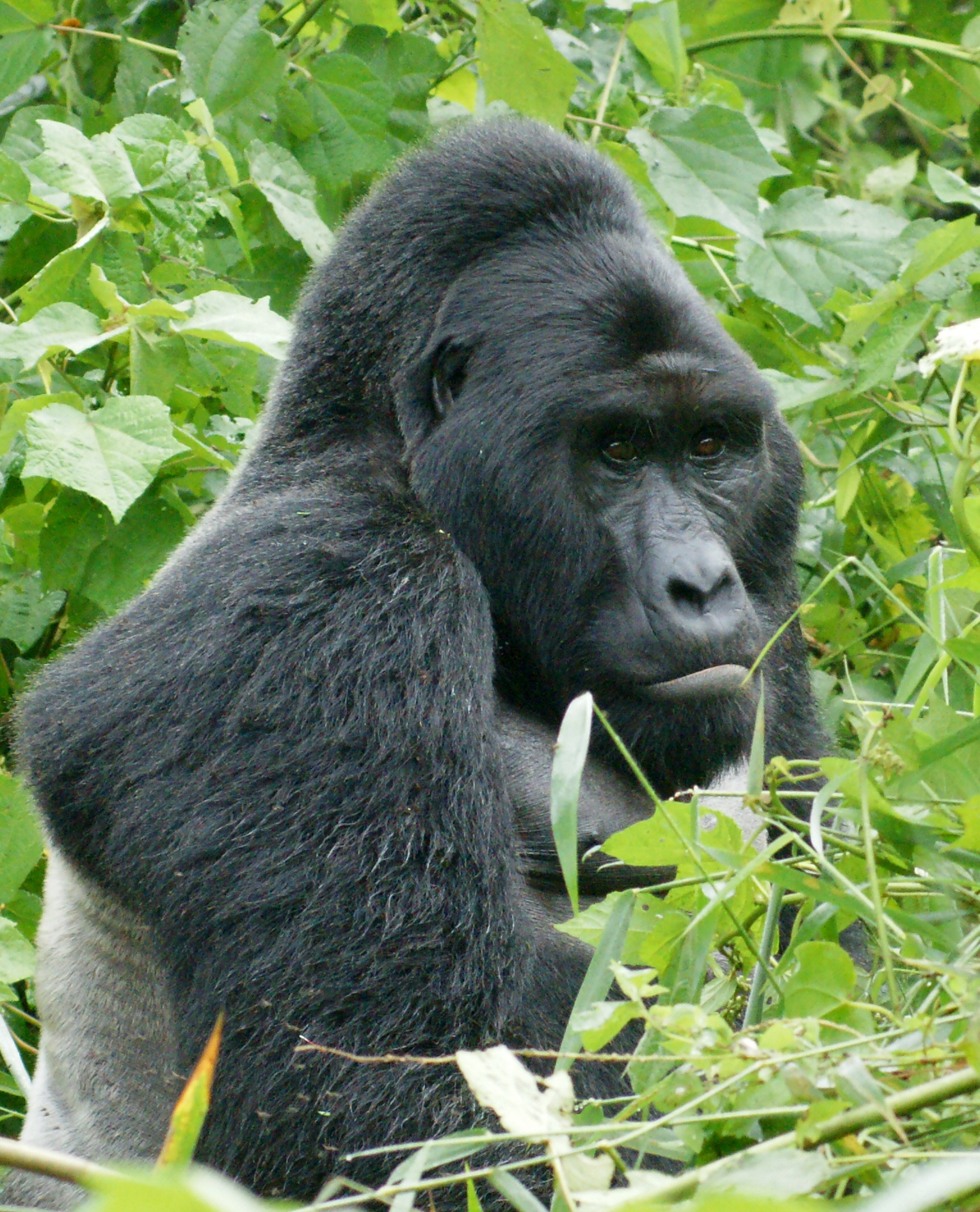 Gorilla Tracking - 02